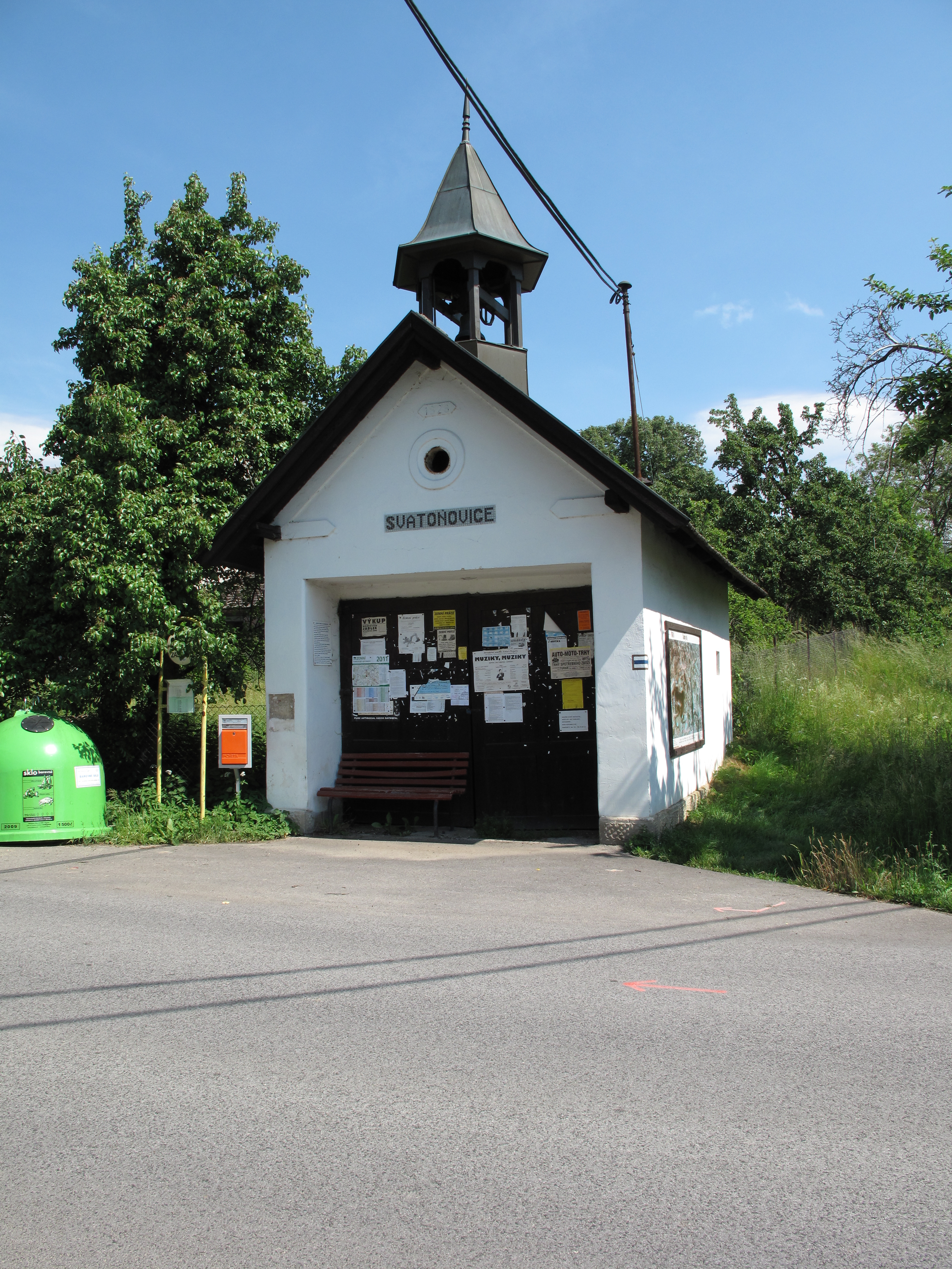 Firehouse in Svatoňovice village (Karlovice municipality), Semily District, Czech Republic.